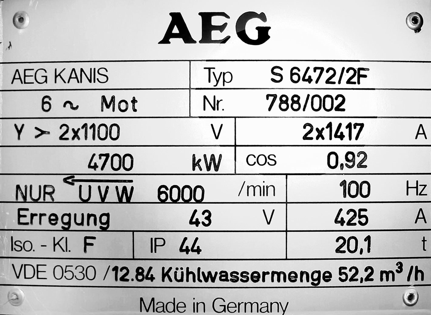 Type-Sign of Electric motor